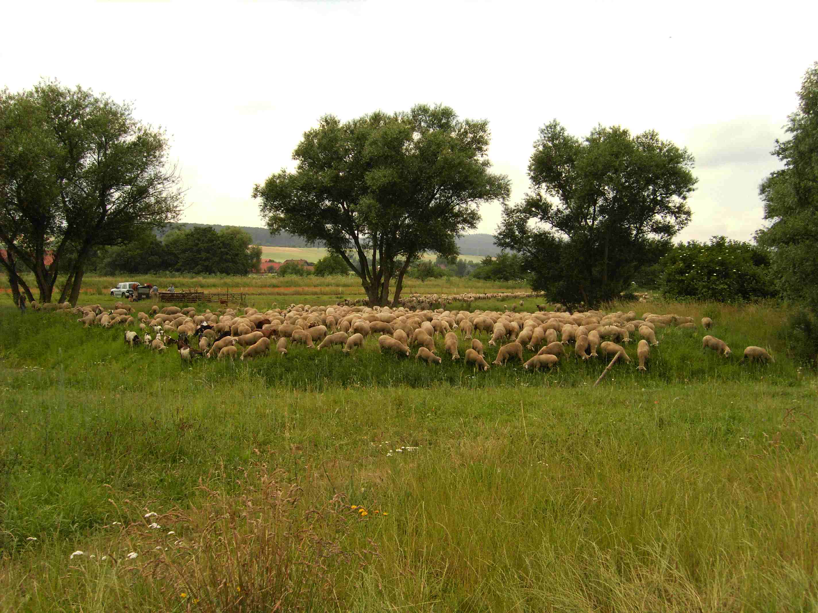 Description: Heinde, Mühle, Flock of sheep Photographer: Longbow4u, photo taken myself, 02.07.2005 Licence